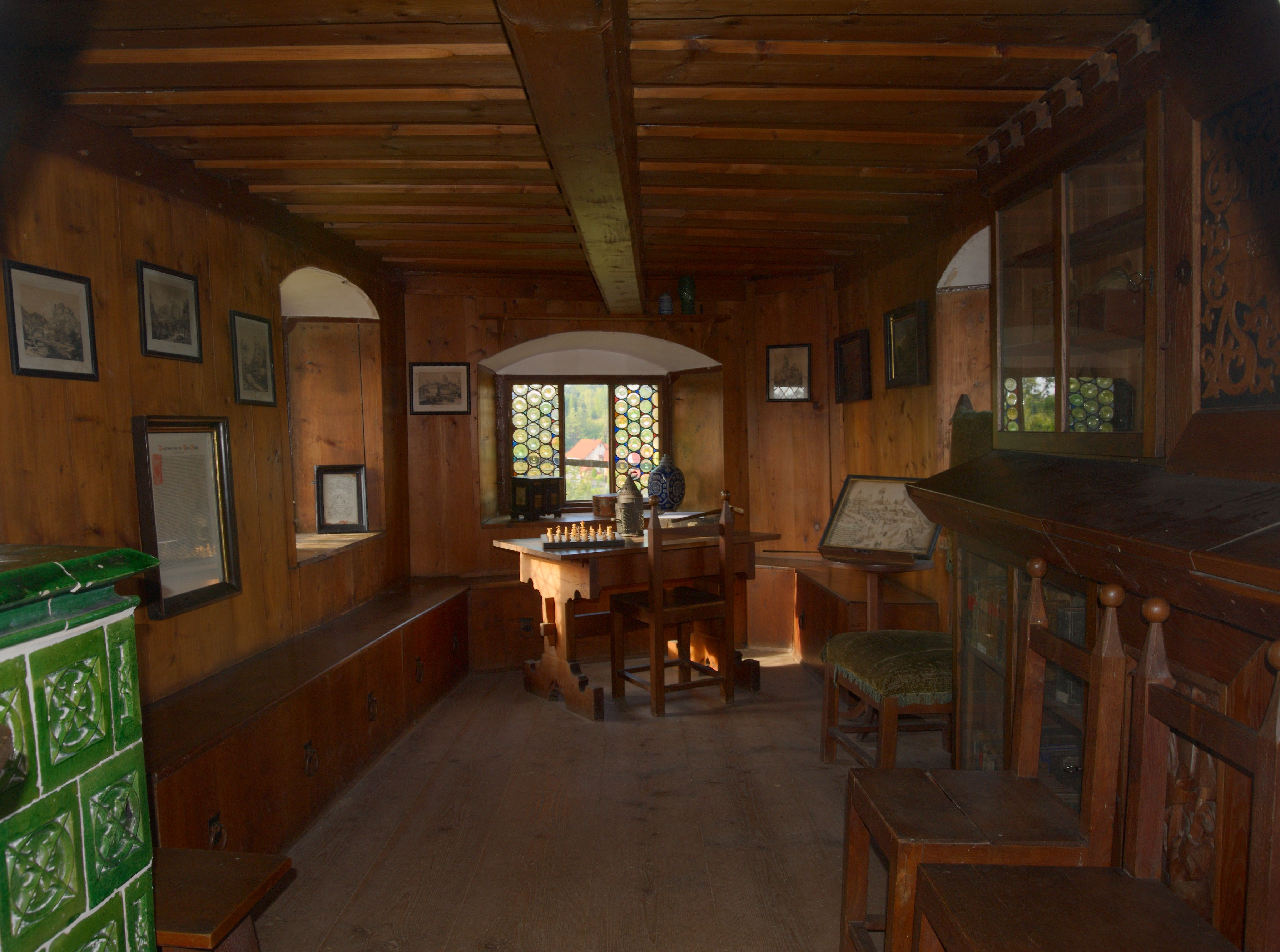 Study-room of Hans von Aufseß in the Meingoz house, castle Unteraufsess